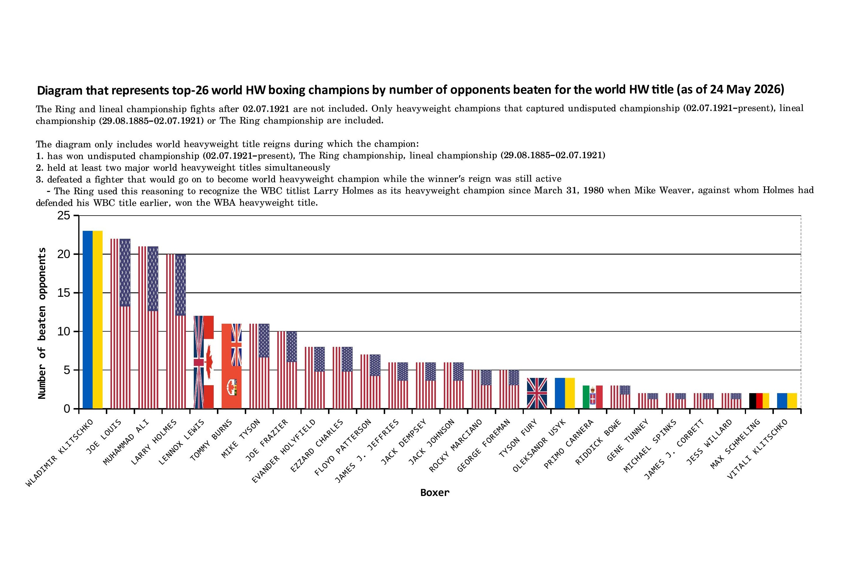 A chart that represents former an current world heavyweight boxing champions by number of opponents beaten in world heavyweight title fights. The list does not include The Ring and lineal championship fights after 1921, although it only includes heavyweight champions that captured undisputed championship (1922–present), lineal championship (1885–1921) or The Ring championship (1922–1989, 2002–). The list only includes title reigns during which the champion: 1. has won undisputed championship (1922–present), The Ring championship (1922–1989, 2002–), lineal championship (1885–1921) 2. unified the titles 3. defeated a fighter that either had to drop his own world title prior to the fight due to organization's championship policy or would later become the world champion, while the winner's reign was still active